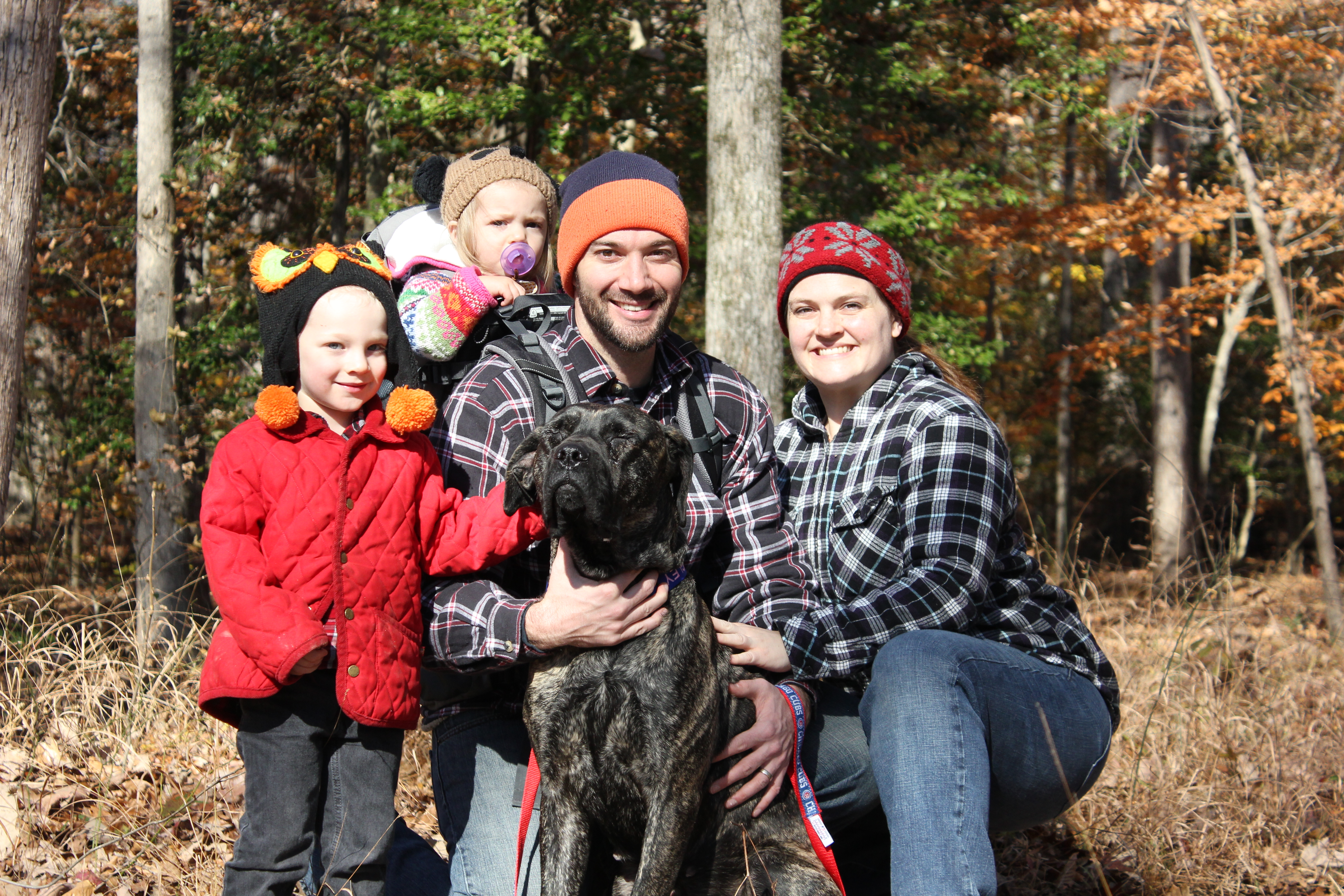 Contest Entry Pocahontas State Park "Great day with the family adventuring around Beaver Lake at Pocahontas State Park."